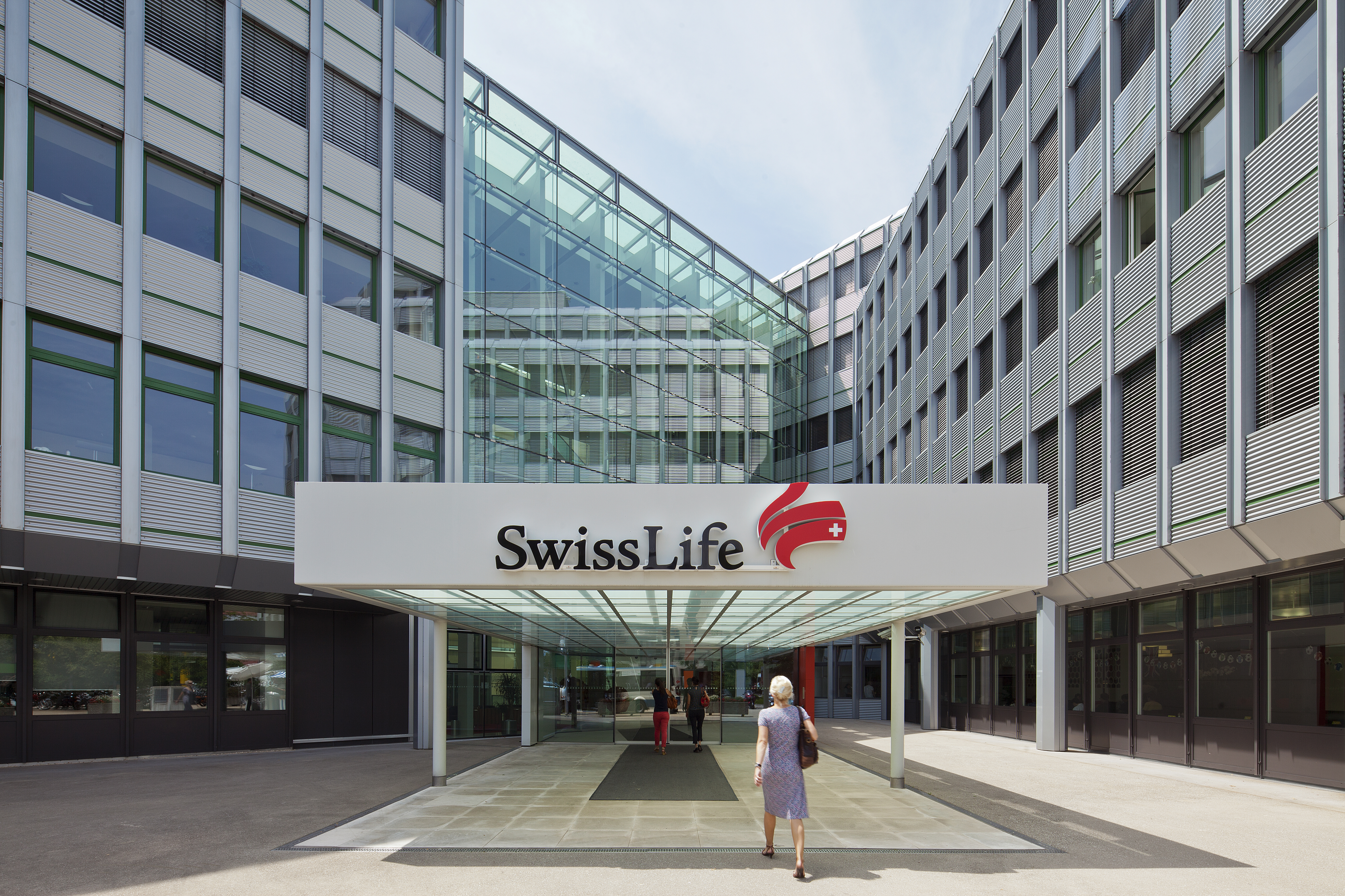 Swiss Life Zurich Binz